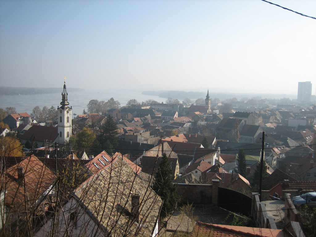 Panoramic view of Zemun, Belgrade, Serbia